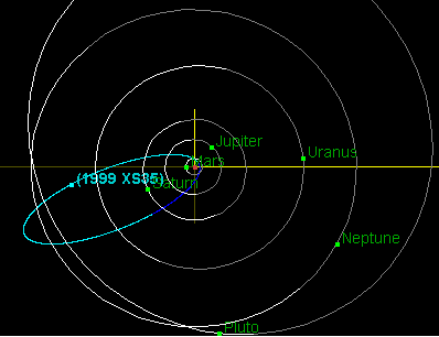 The comet-like orbit of the damocloid asteroid 1999 XS35.